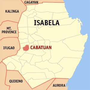 Map of Isabela showing the location of Cabatuan